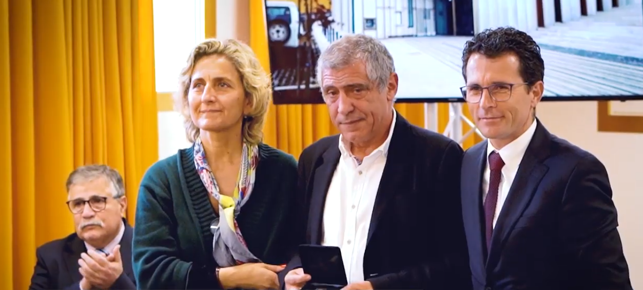 Ana Abrunhosa (Minister of Territorial Cohesion) and Humberto Marques (Mayor of Óbidos) bestow the Municipal Medal of Merit on Fernando Santos; 11 January 2020.